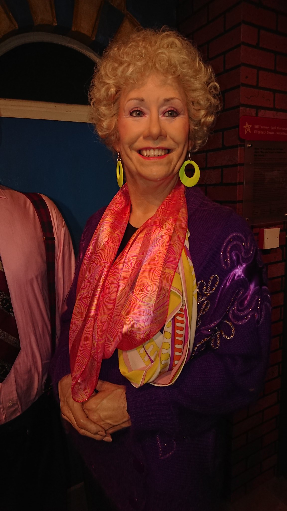 Liz Dawn posing as a Vera Duckworth waxwork at Madame Tussauds in Blackpool, Lancashire - 2018